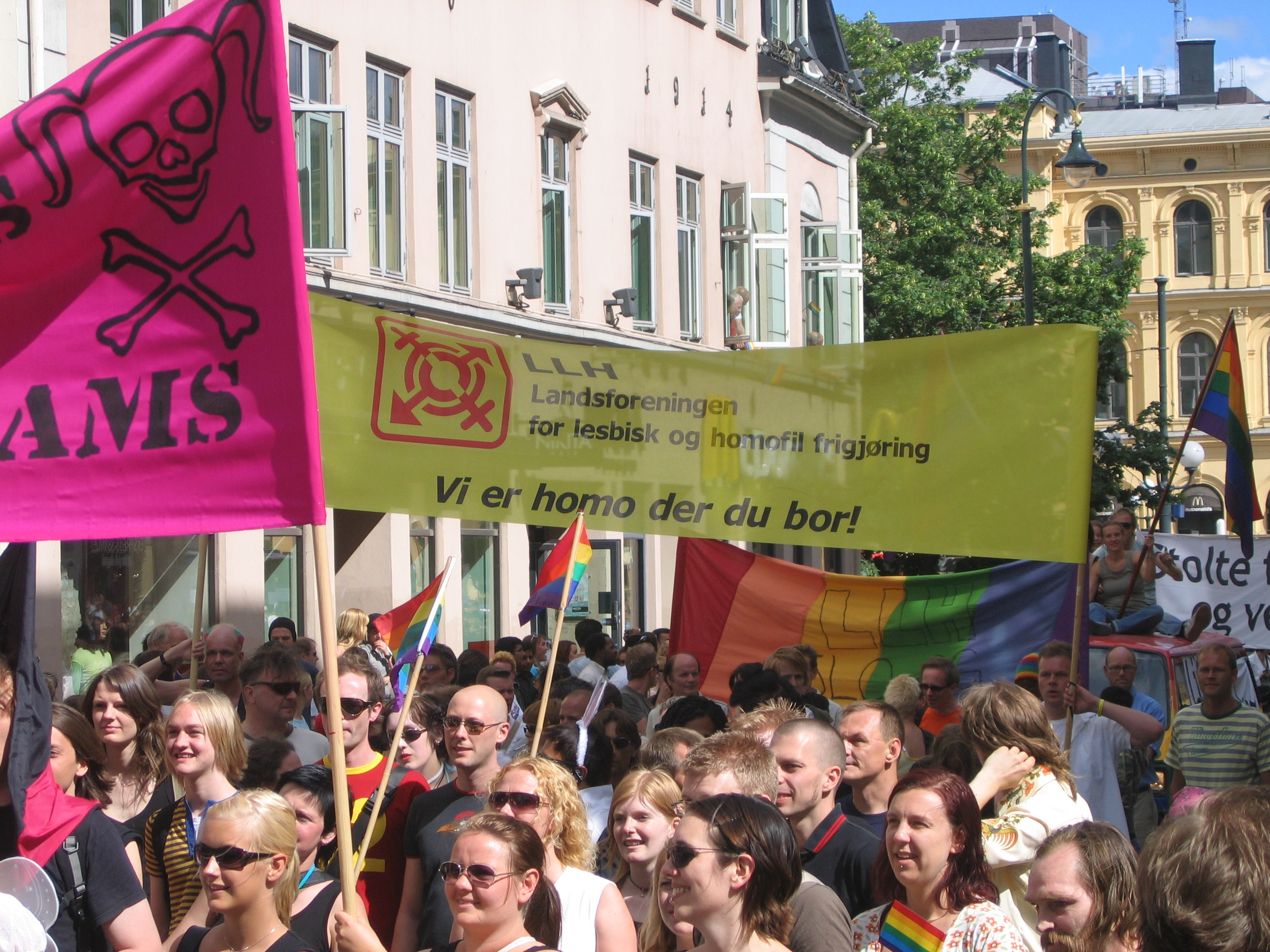 The parade at Europride, Oslo, 2005. Showing the banner of the norwegian association Landsforeningen for lesbisk og homofil frigjøring